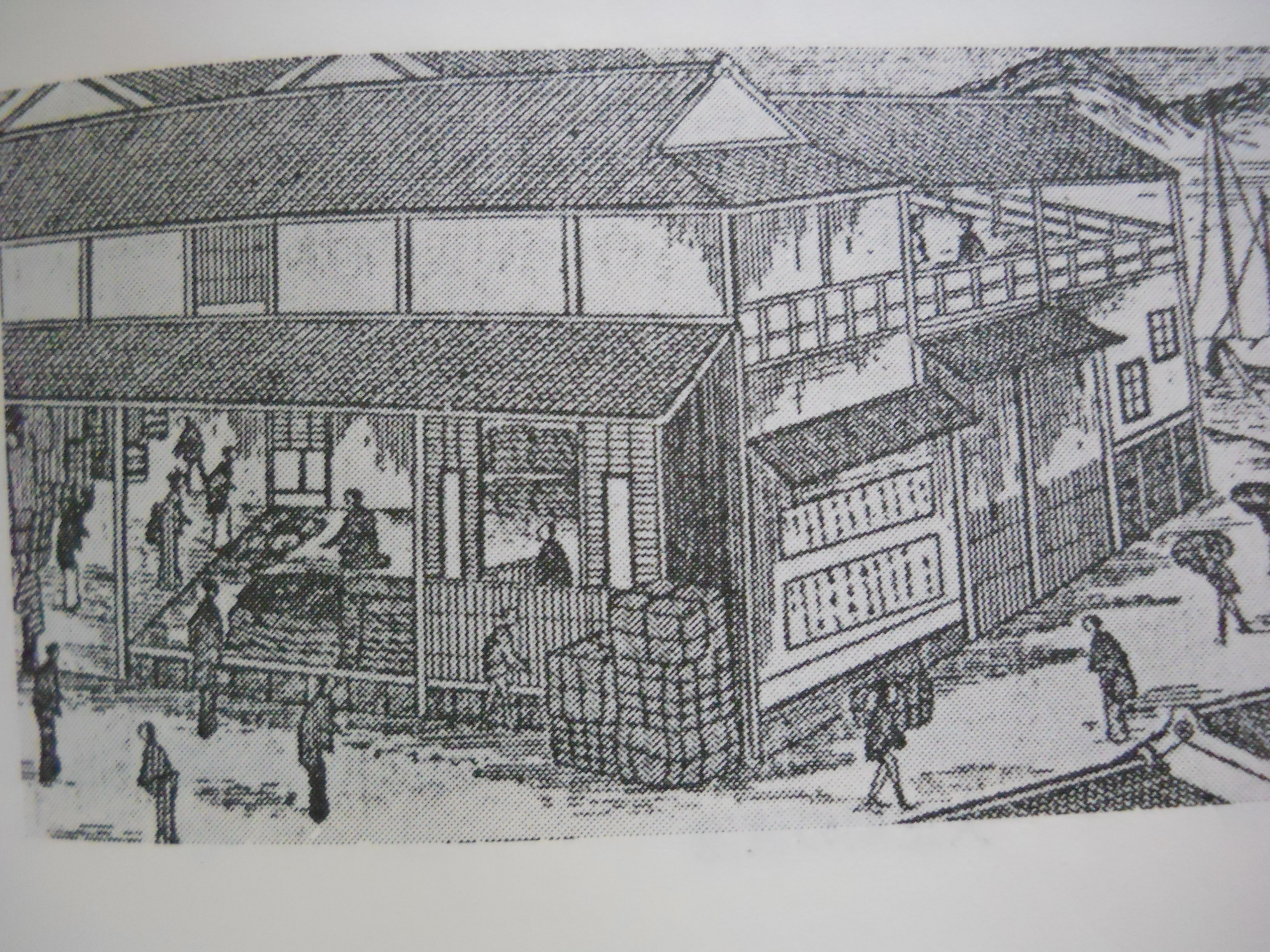 Mura House